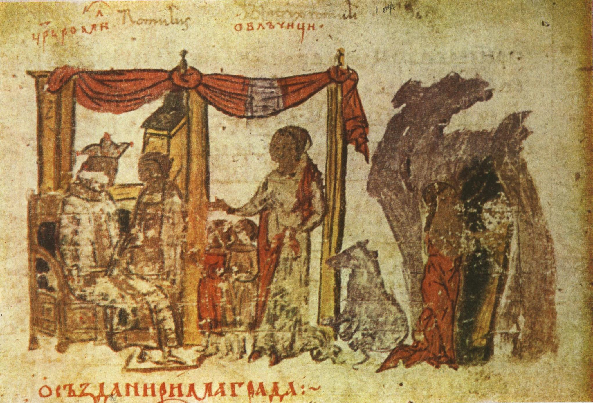 Miniature 21 from the Constantine Manasses Chronicle, 14 century: Raping of Numitor's daughter, arrival of Romulus and Remus to their grandfather.